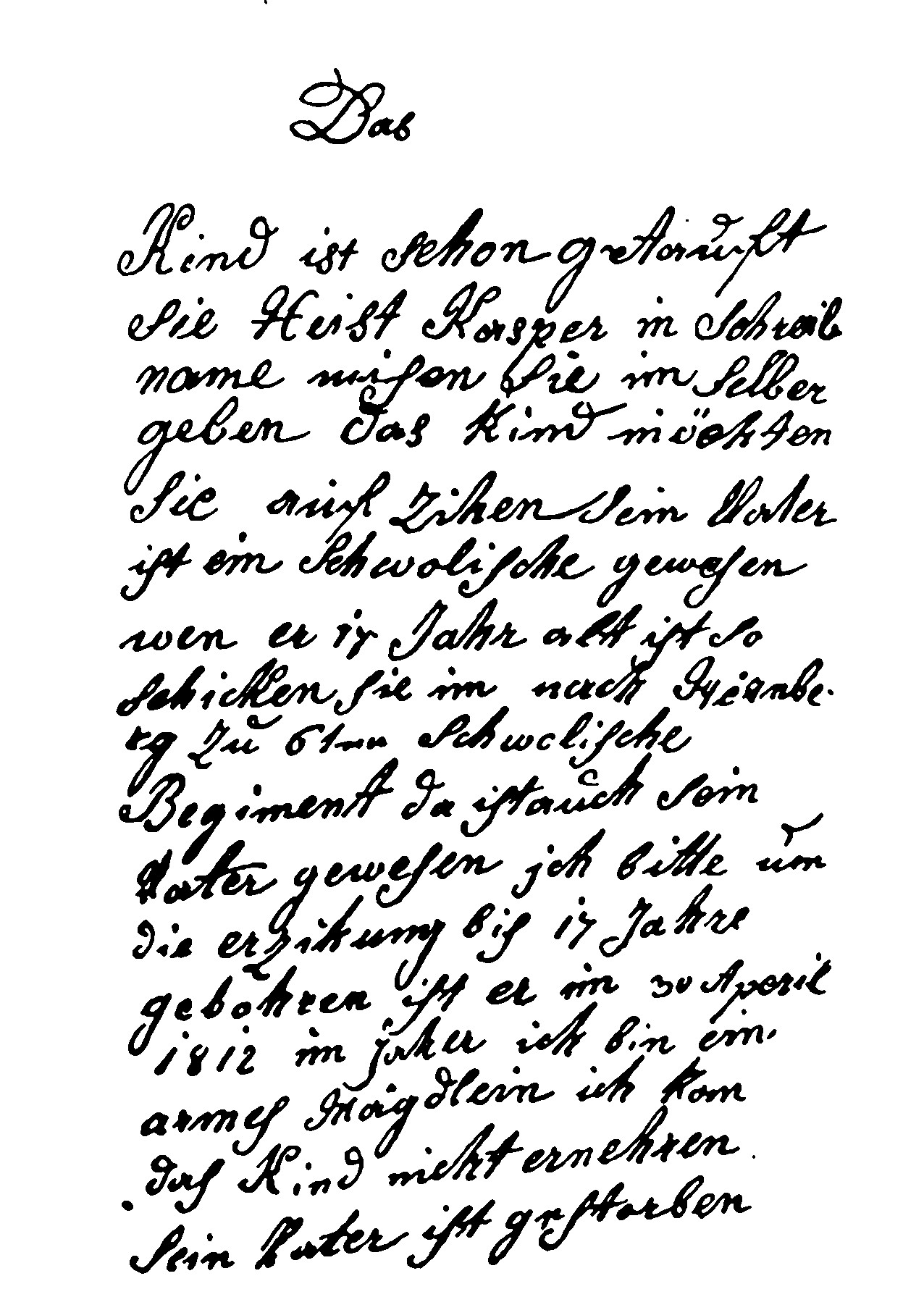 The child is already baptised. You must give him a surname yourself. You must educate the child. His father was one of the Chevaux-legers. When he is 17 years old send him to Nuremberg to the sixth Chevaux-leger regiment, for there his father also was. I ask for his education until he is seventeen years old. He was born the 30th of April, 1812. I am a poor girl and cannot support him. His father is dead. (Translation by Henning Gottfried Linberg; from the American edition of Feuerbach: Caspar Hauser, Boston 1832)